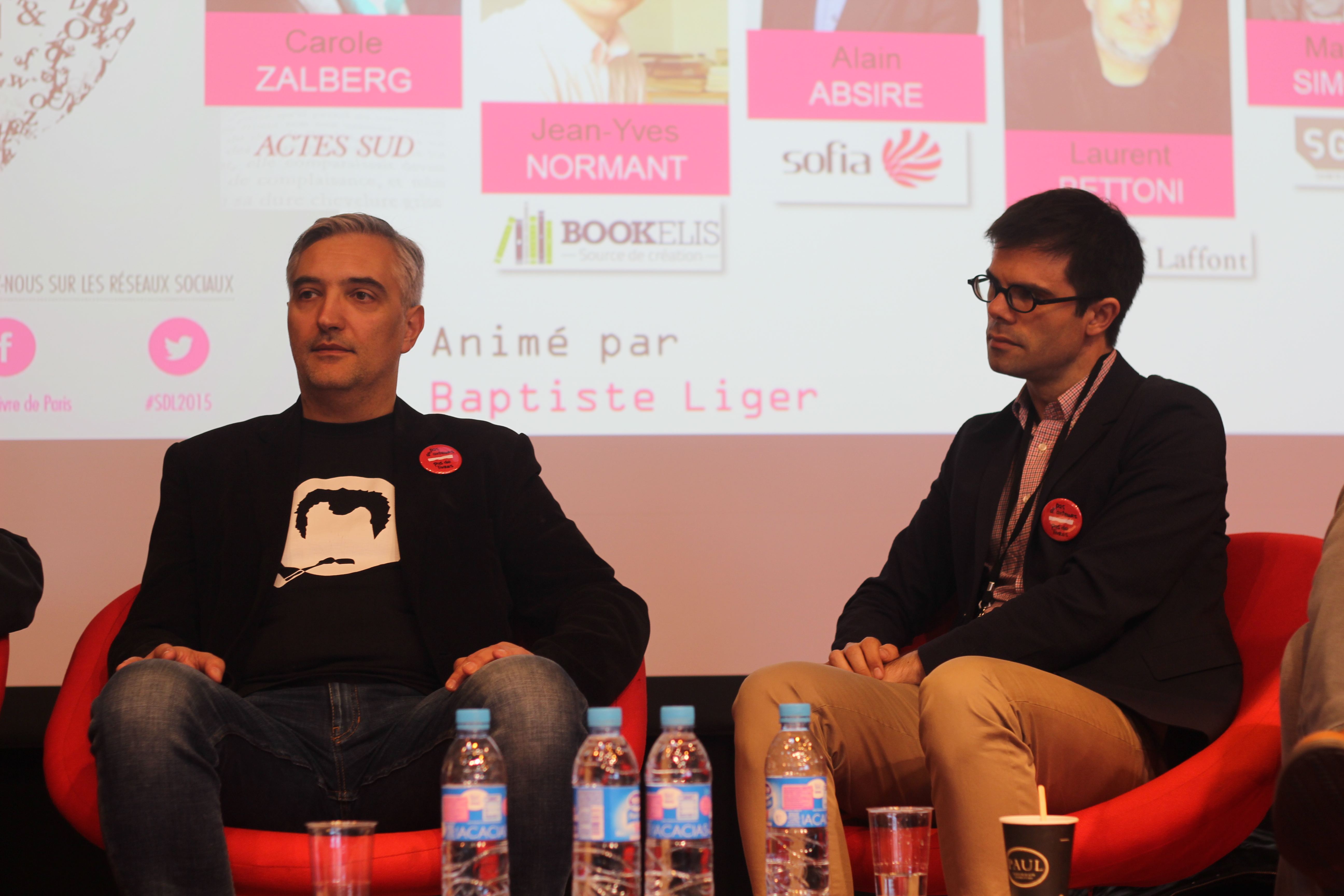 2015 Paris Book Fair, from 20 to 23 March 2015, Paris expo Porte de Versailles.